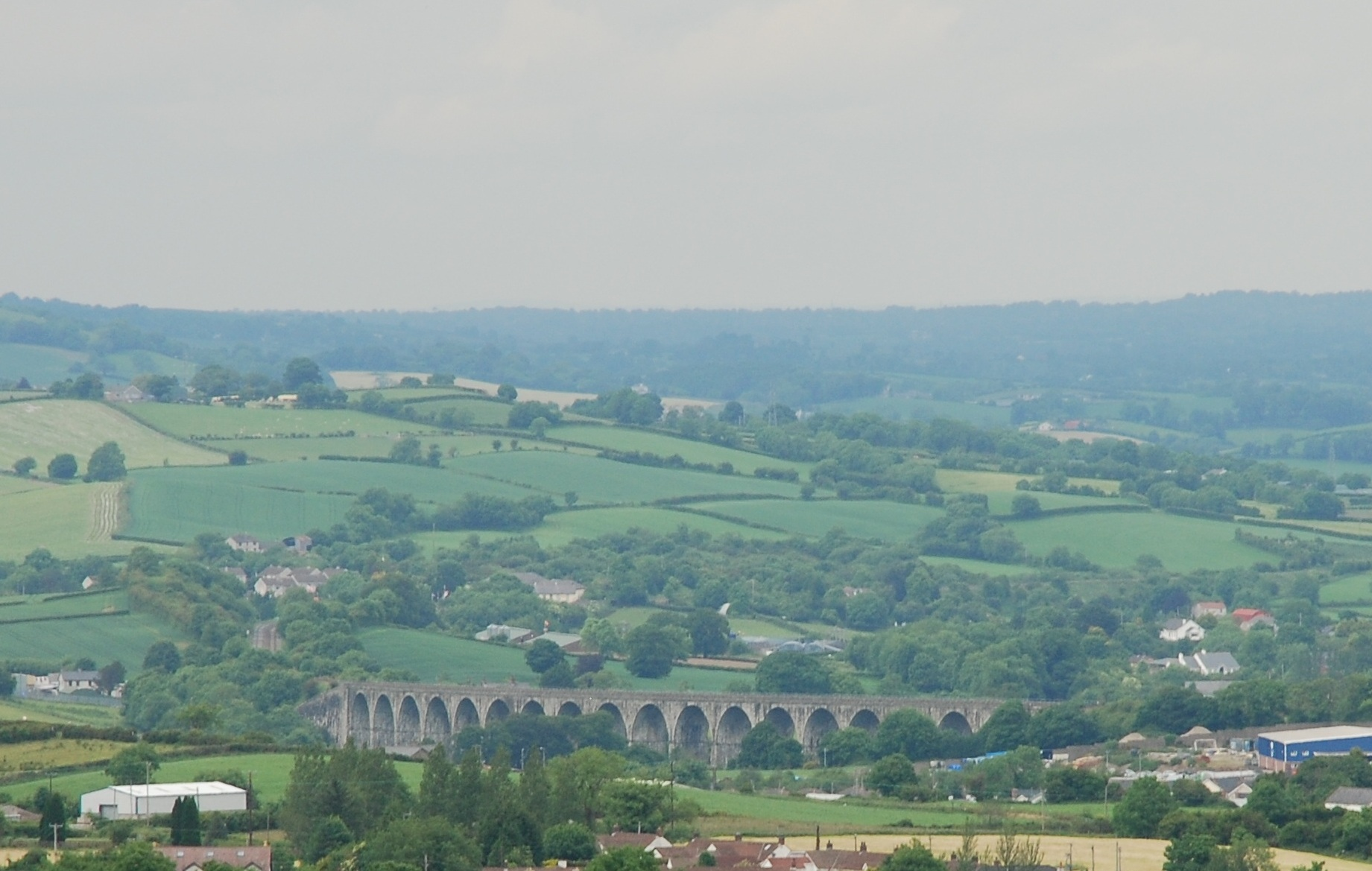 Craigmore Viaduct AKA 18 Arches pictured from bernish viewpoint, newry